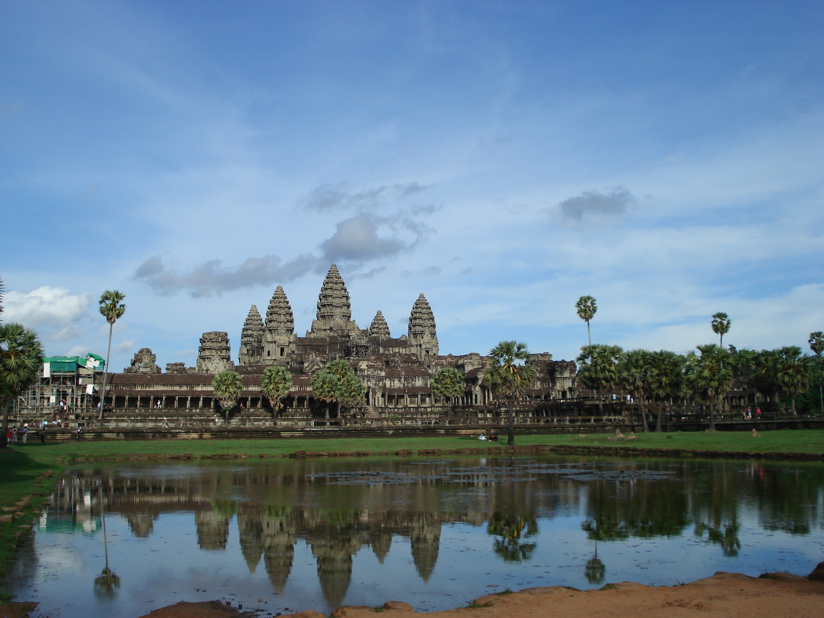 Picture of Angkor Wat